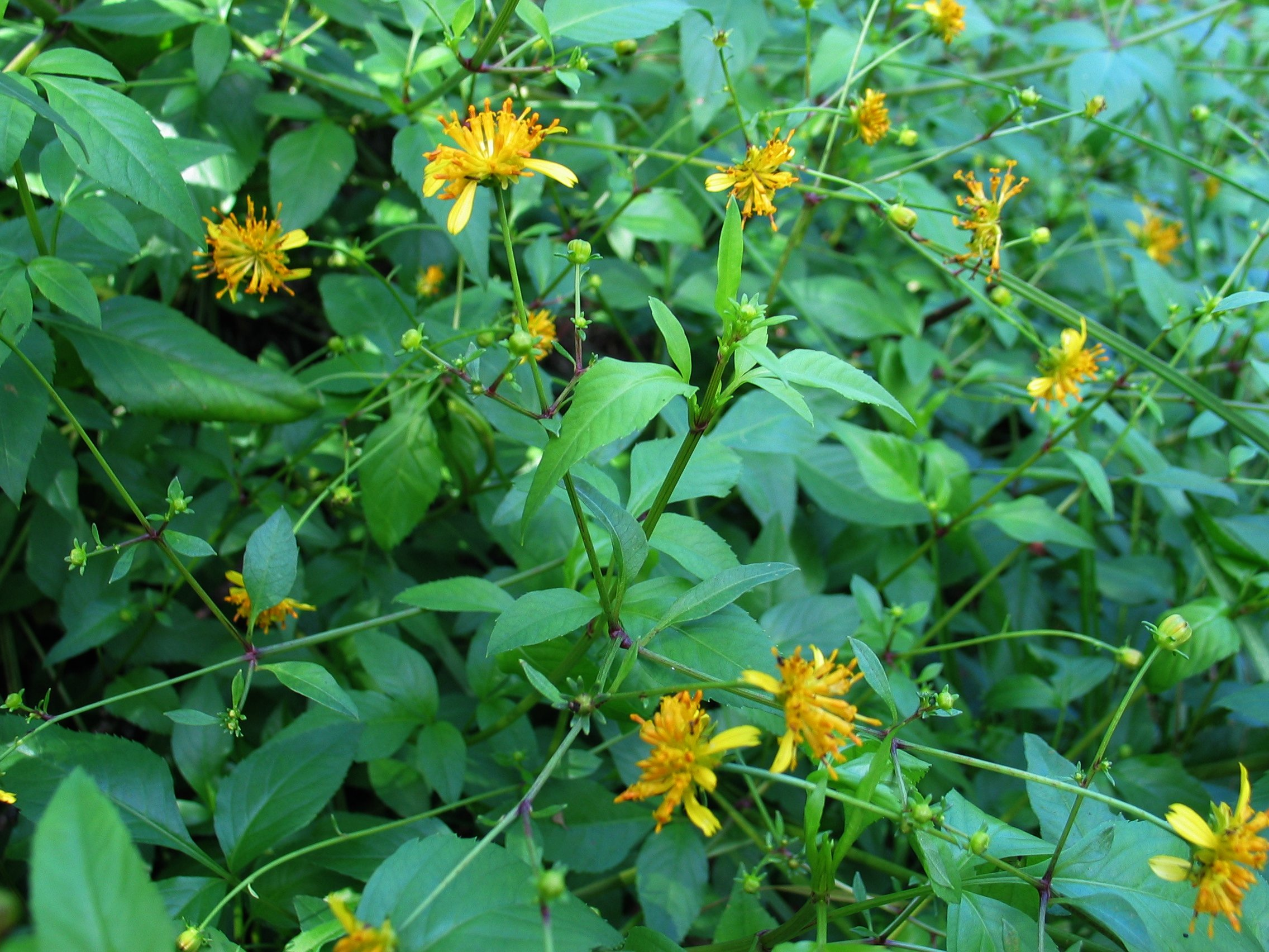 Koʻokoʻolau or Viper beggarticks Asteraceae Endemic to the Hawaiian Islands Vulnerable Oʻahu (Cultivated)